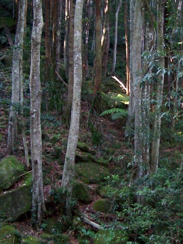 Guioa semiglauca growing at Foxground